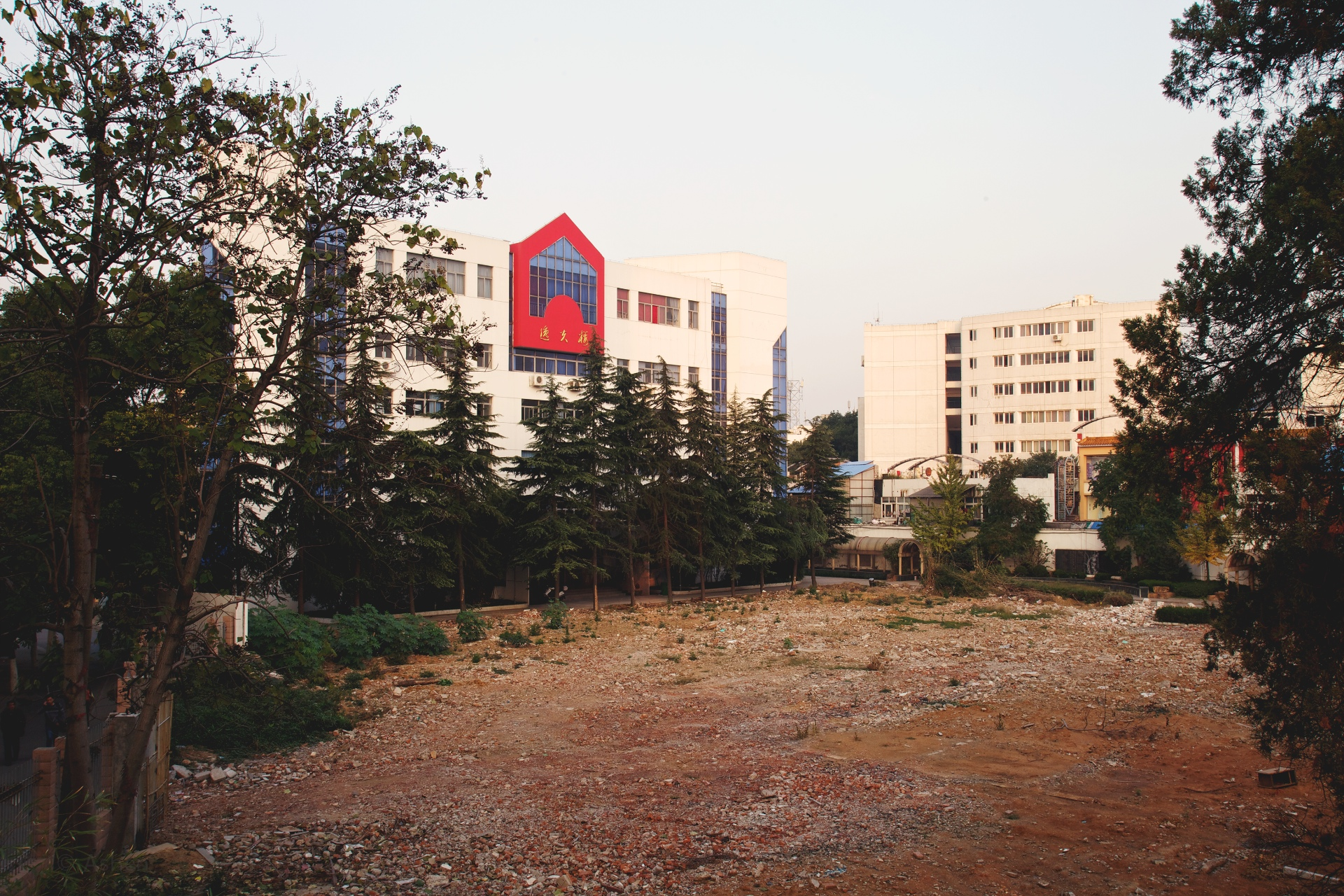 Run Run Shaw Building (Yifu Building) in The High School Affiliated to Anhui Normal University, donated by Sir Run Run Shaw CBE, GBM